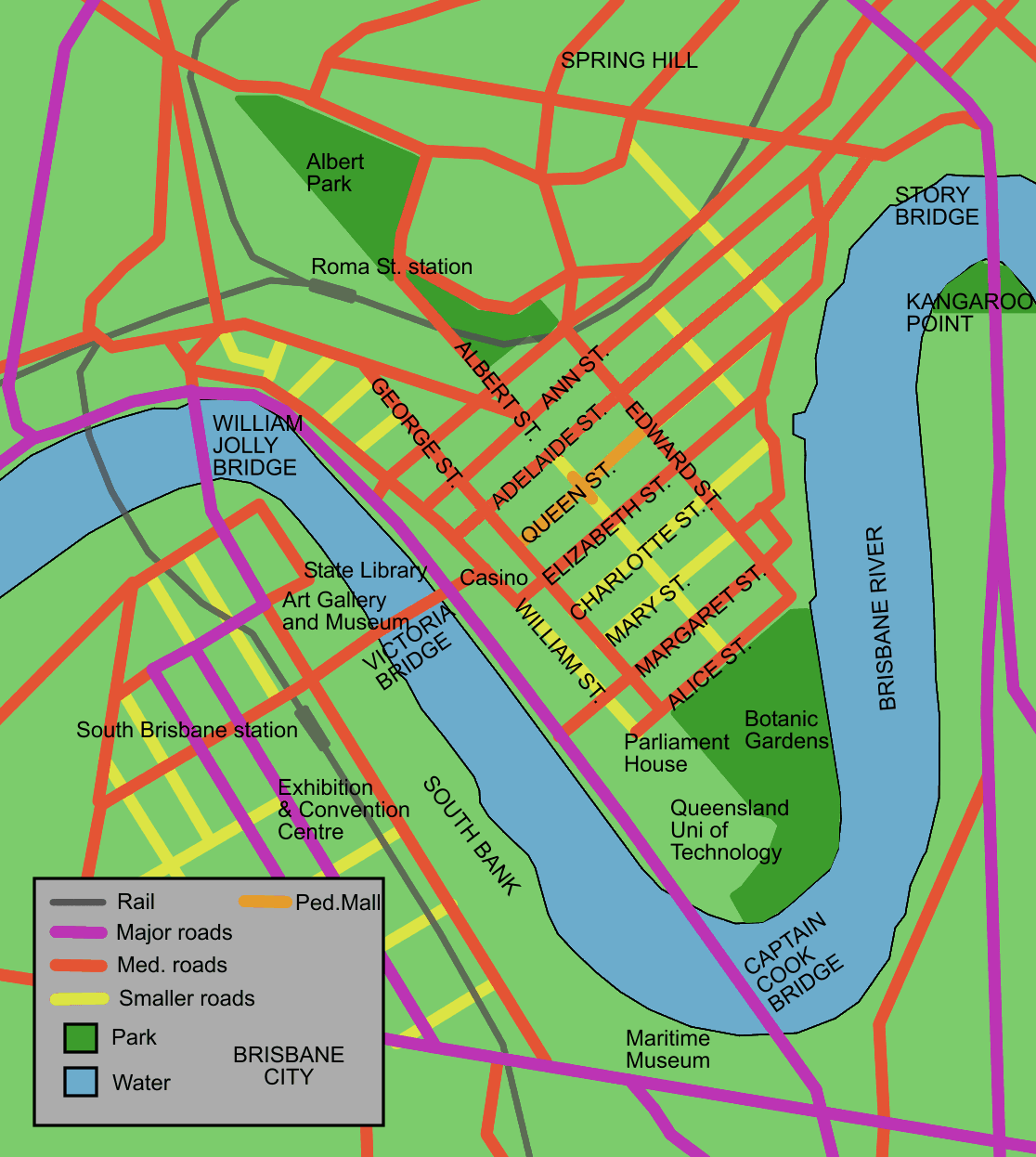 Conversion of Image:Brisbane map of city cbd.PNG